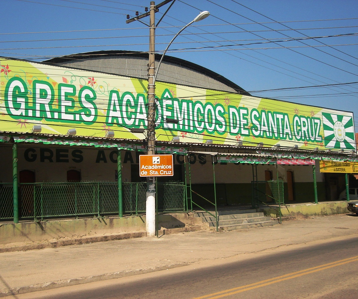 School of samba Acadêmicos de Santa Cruz